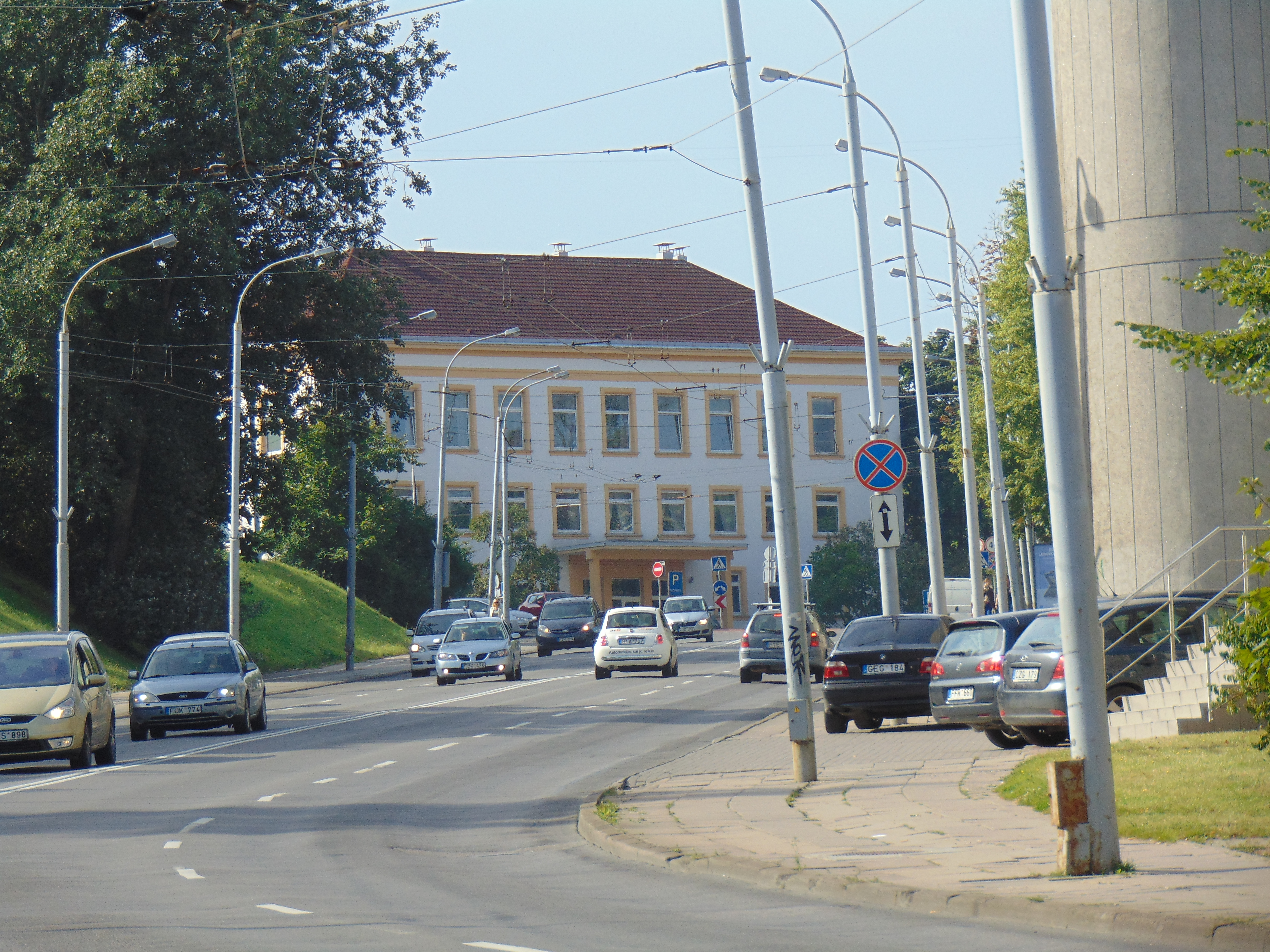 Embassy of Germany in Vilnius